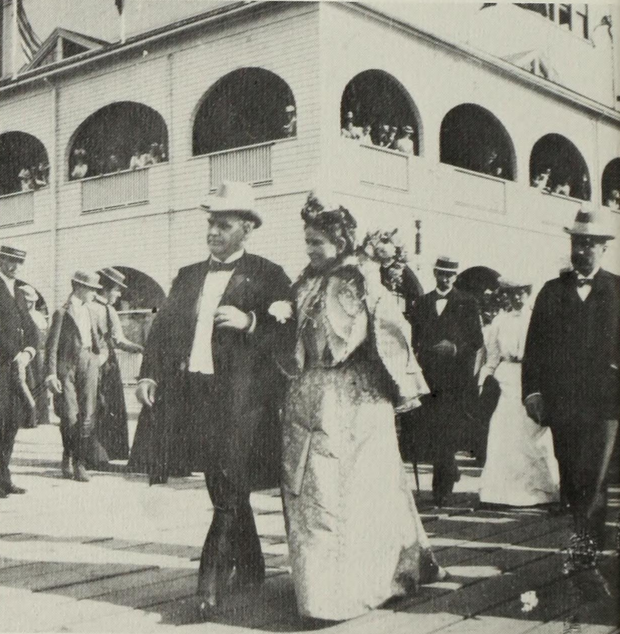 President William McKinley and wife Ida Saxton leave the Mount Tom Summit House of the Holyoke Street Railway; the pair were guests of fellow Republican William Whiting. Although a young John Kennedy and Gerald Ford would both spend time in the city, as of 2019, McKinley is the only sitting president to visit during his tenure.